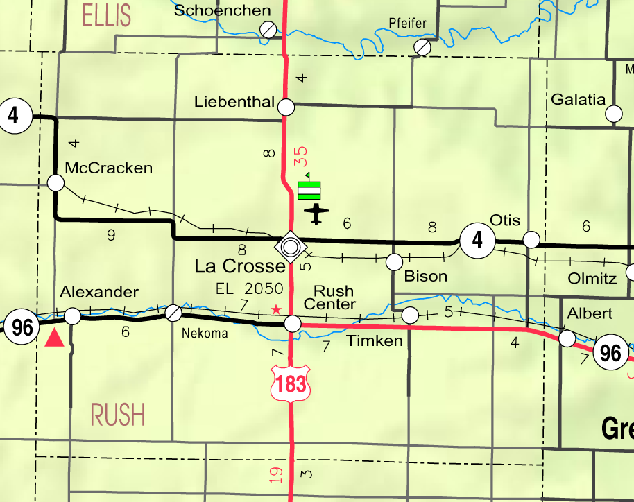 This map of Rush County, Kansas, USA, is copied at a resolution of 300 pixels/inch from the original PDF file.